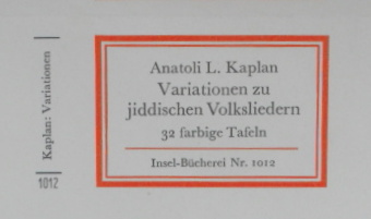 Unused title tag and spine label for the book title IB 1012/1 (Insel-Bücherei, Leipzig) from 1976